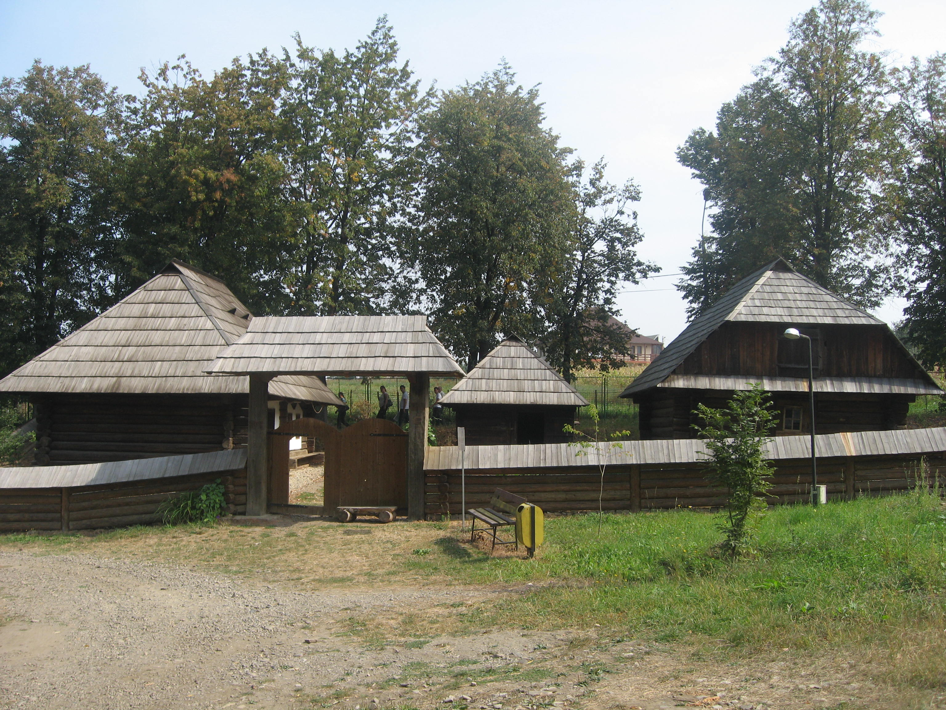 Bukovina Village Museum - The Straja Household, Rădăuţi ethnographic area.